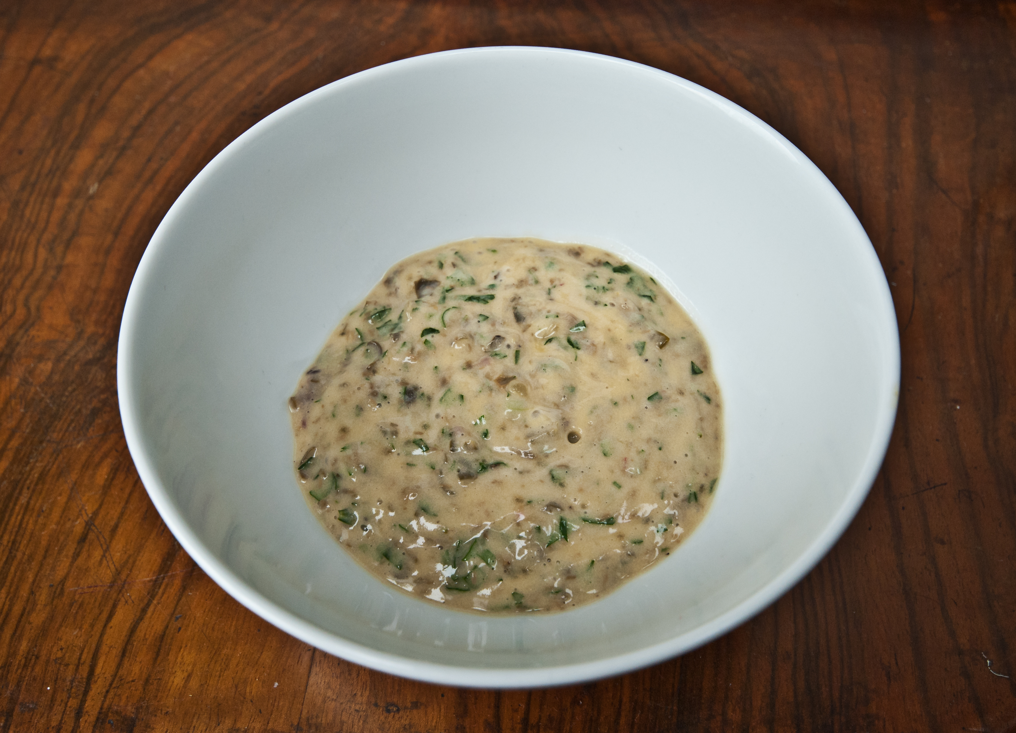 A bowl of freshly prepared sauce remoulade. Essential ingredients: egg yolk, vinegar, oil, salt, ground pepper, capers, anchovy, freshly cut tarragon and chervil, chopped gherkin